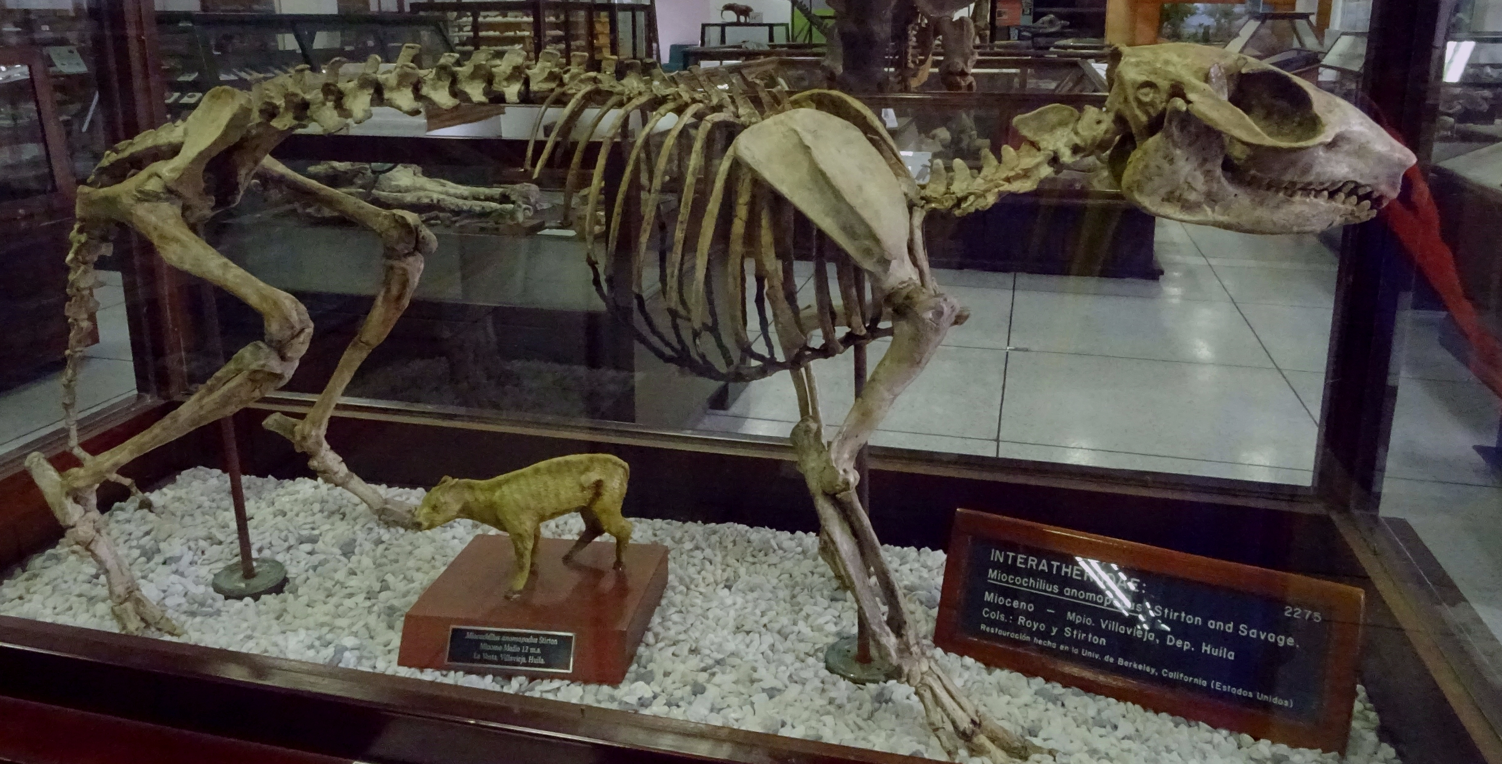 Reconstructed skeleton of Miocochilius from the Honda Group, Colombia